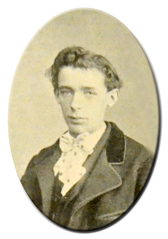 Photo retouched with photoshop, captioned "MG Meter", in 1863, French politician, in an article entitled "MG Measurer and Public Assistance," published in the "Journal Illustrated" (Bound Tome 1902). The photo is made ​​by Pierre Petit. Public assistance was then in charge of 48,000 pupils according to the article.